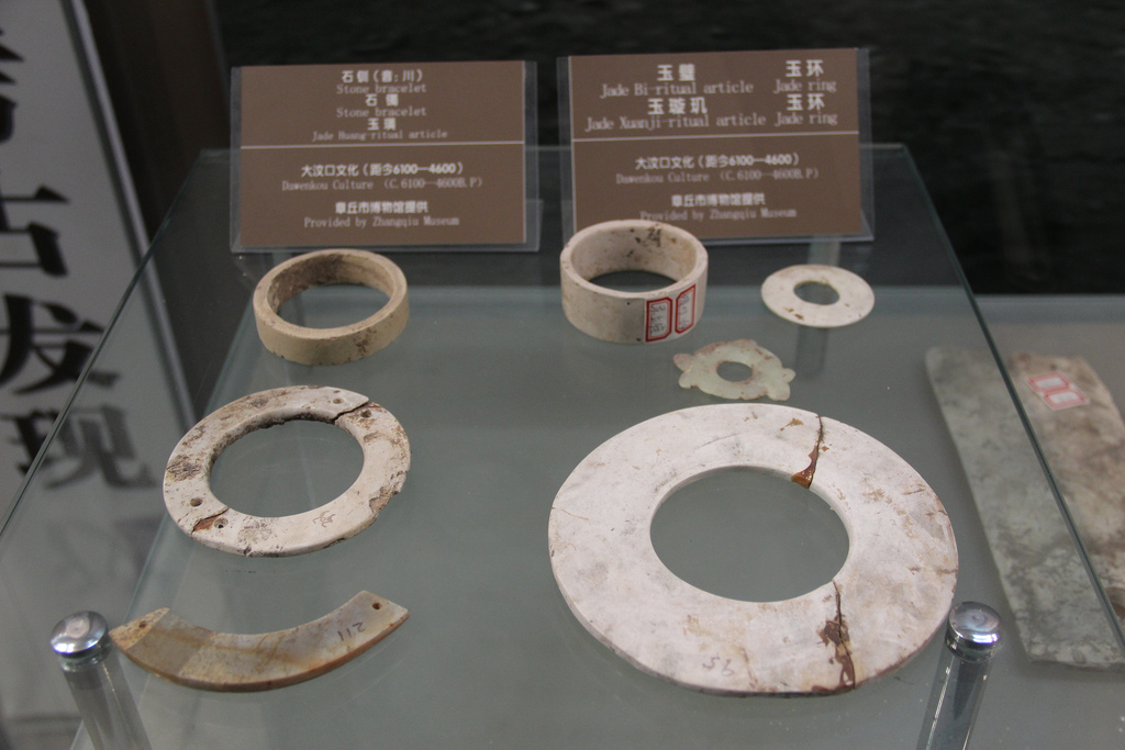 Dawenkou Culture Stone & Jade Ornaments. Shandong Provincial Museum, Jinan